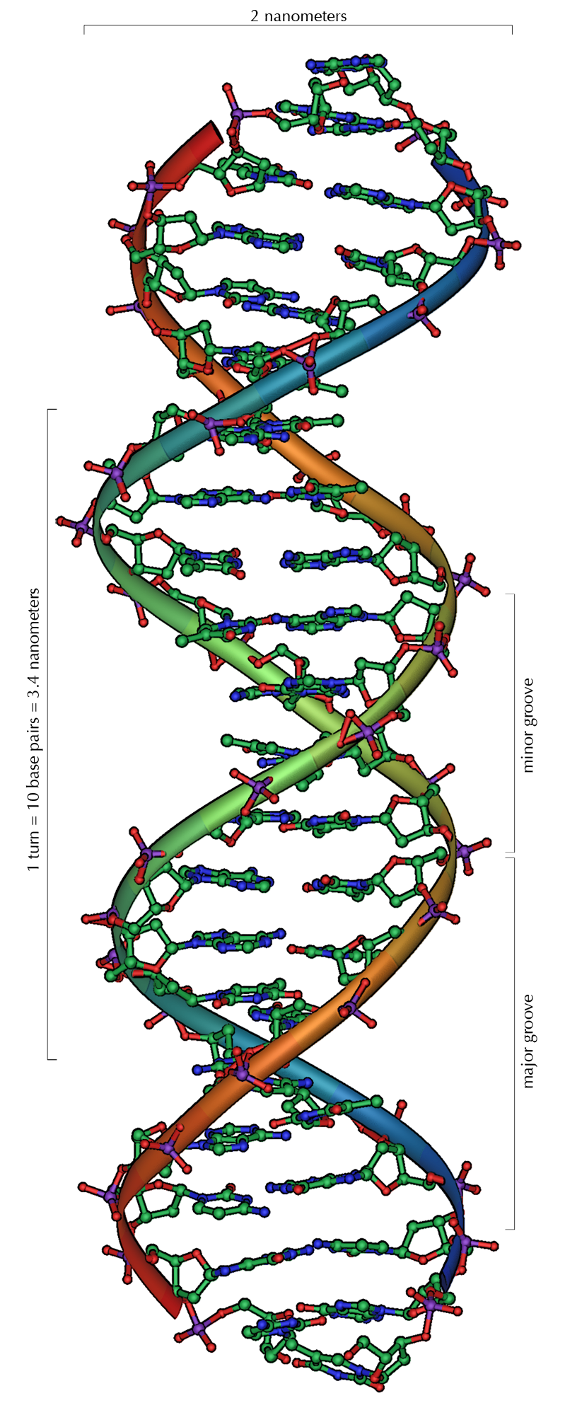 An overview of the structure of DNA.